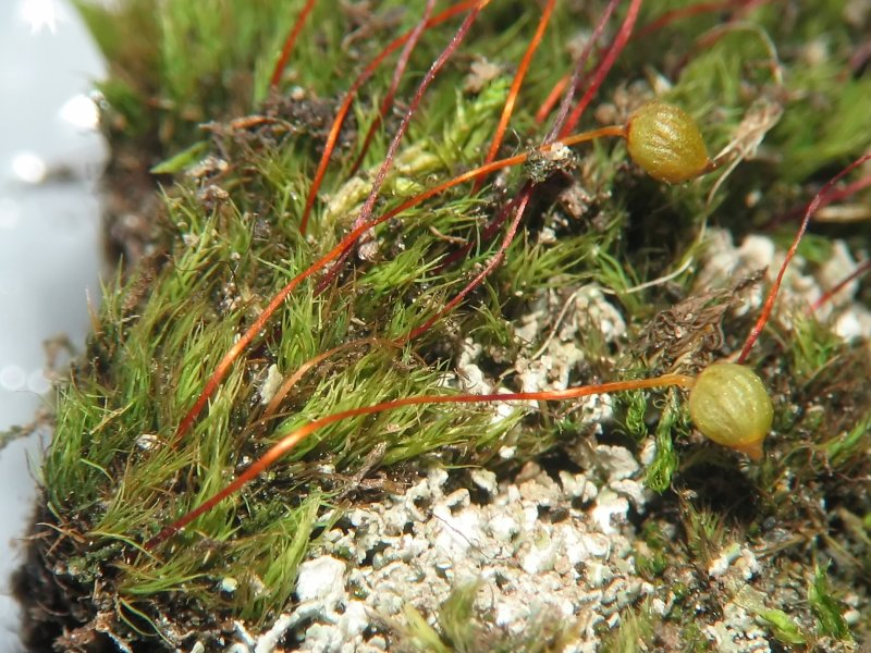 Straffblättriges Apfelmoos (Bartramia ithyphylla)